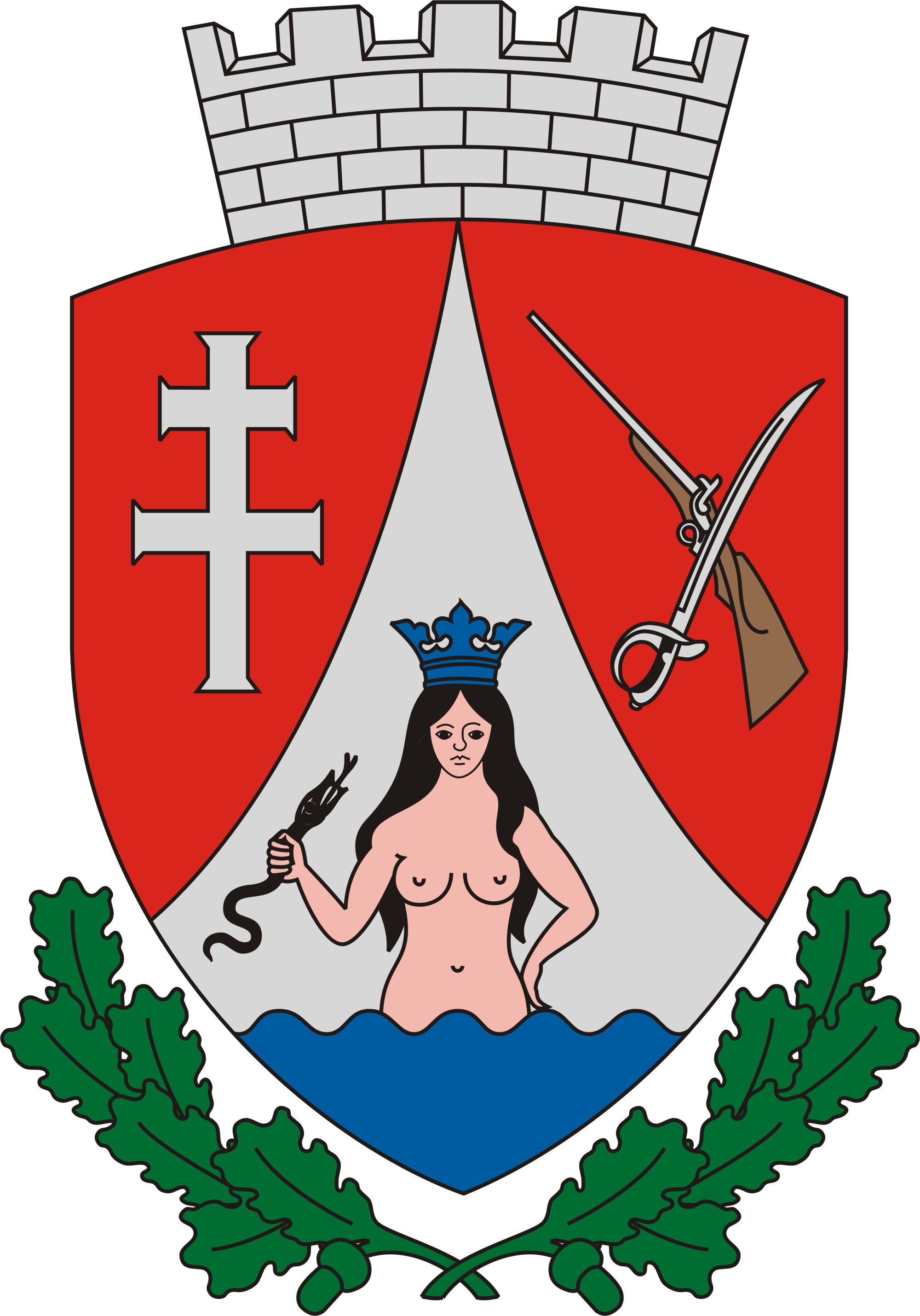 Coat of arms of Csokonyavisonta, Hungary